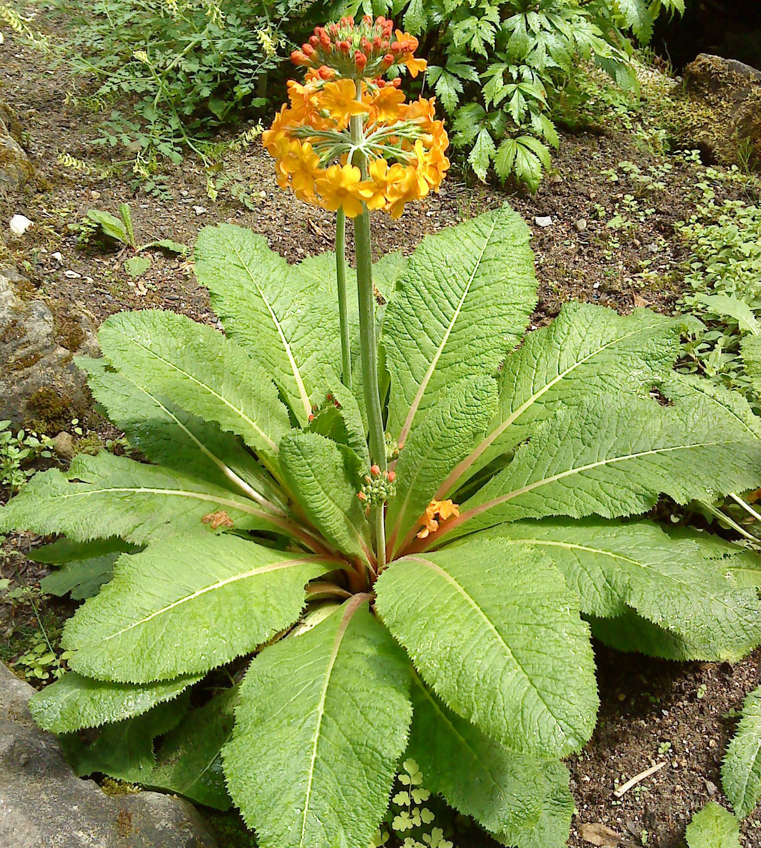 Primula wilsonii